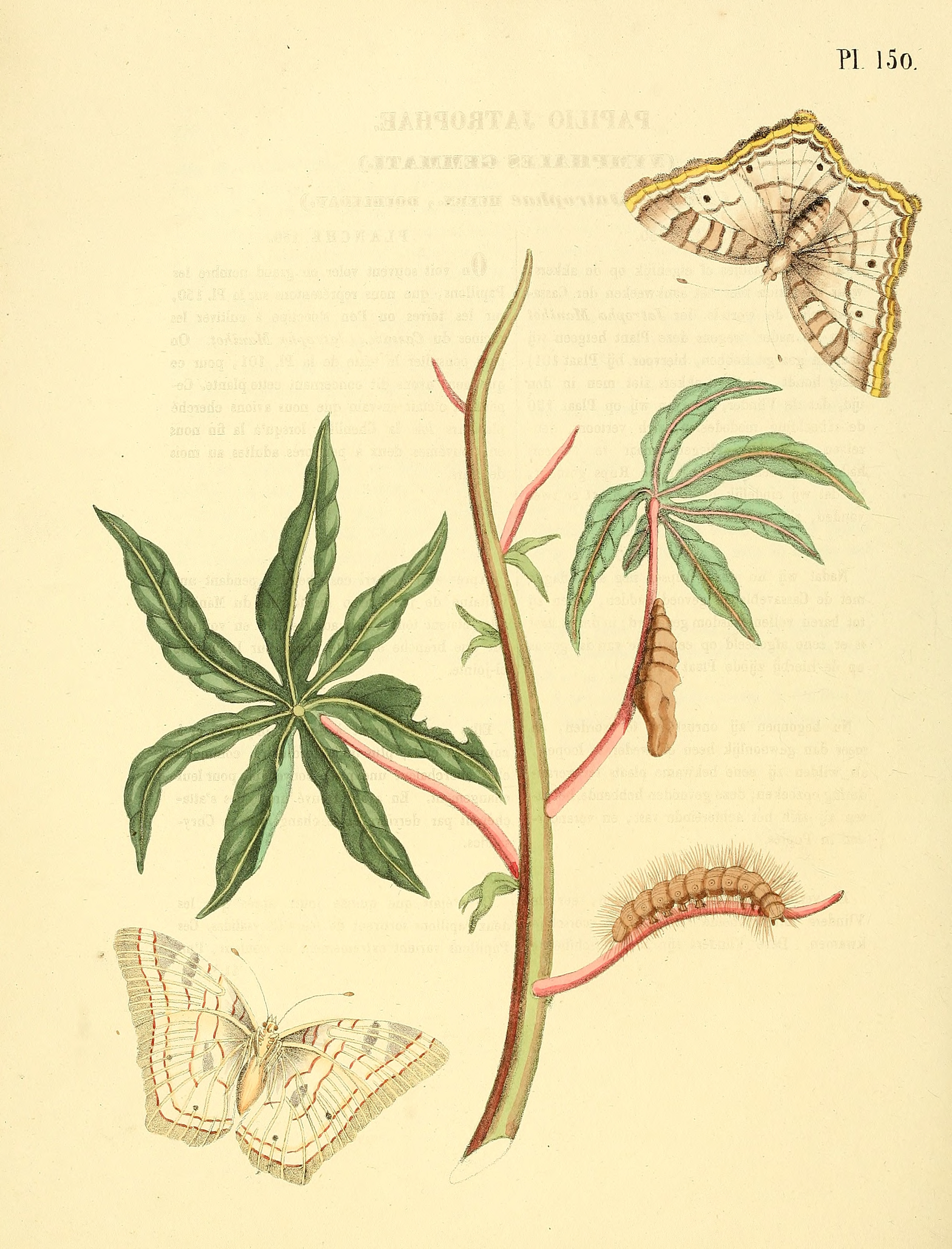 Illustration of: Anartia jatrophae (as syn. Papilio jatrophae)